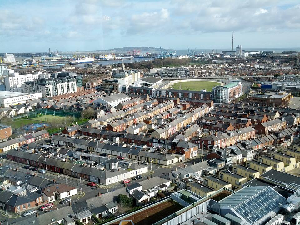 View of Ringsend showing Shelbourne Park greyhound racing stadium from the top floor of the Montevetro building